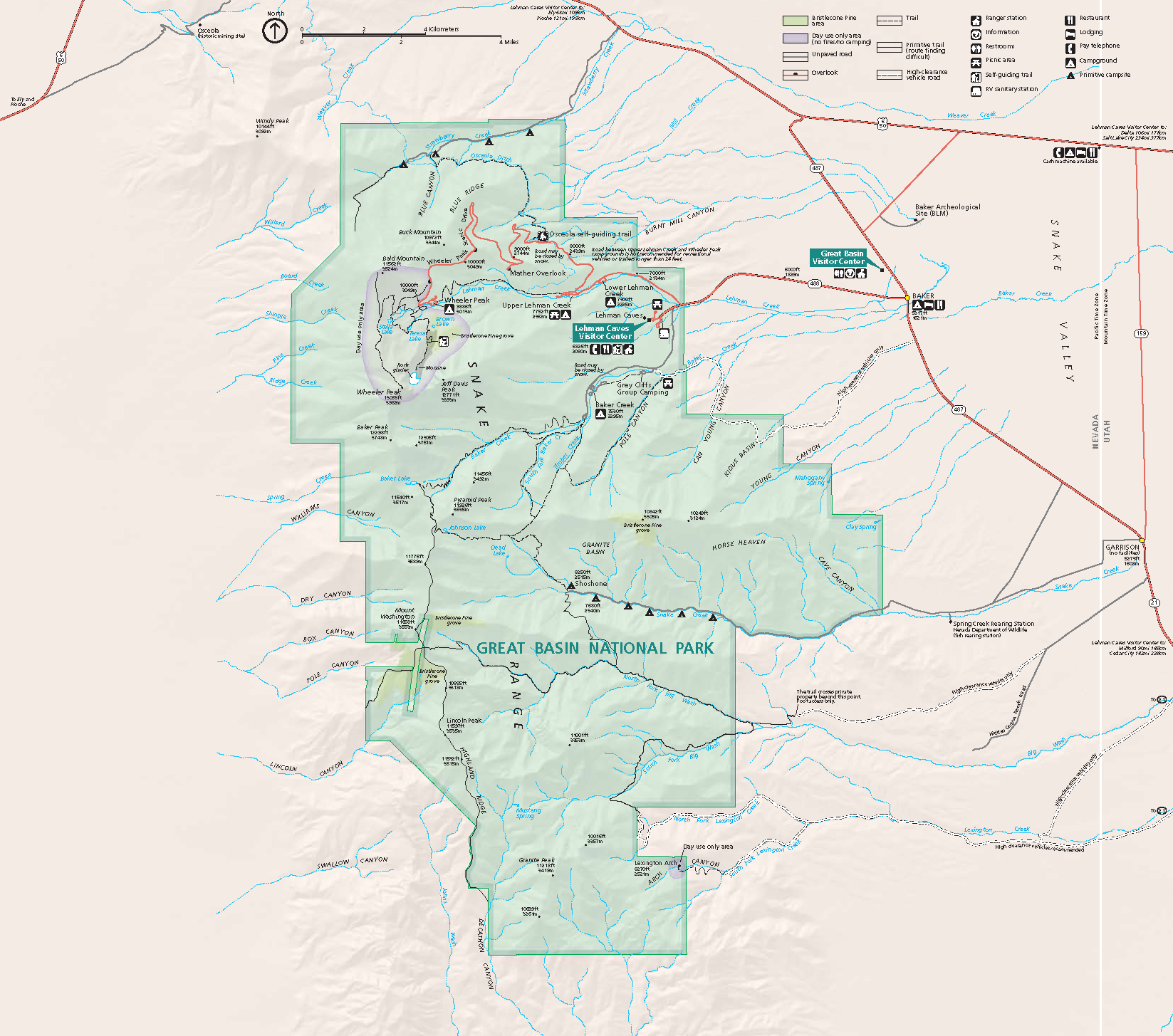 Official National Park Service map — of Great Basin National Park. Located in White Pine County, of eastern Nevada. Converted from PDF using Adobe Acrobat 7.0 Professional. Original file name: GRBAmap1.pdf